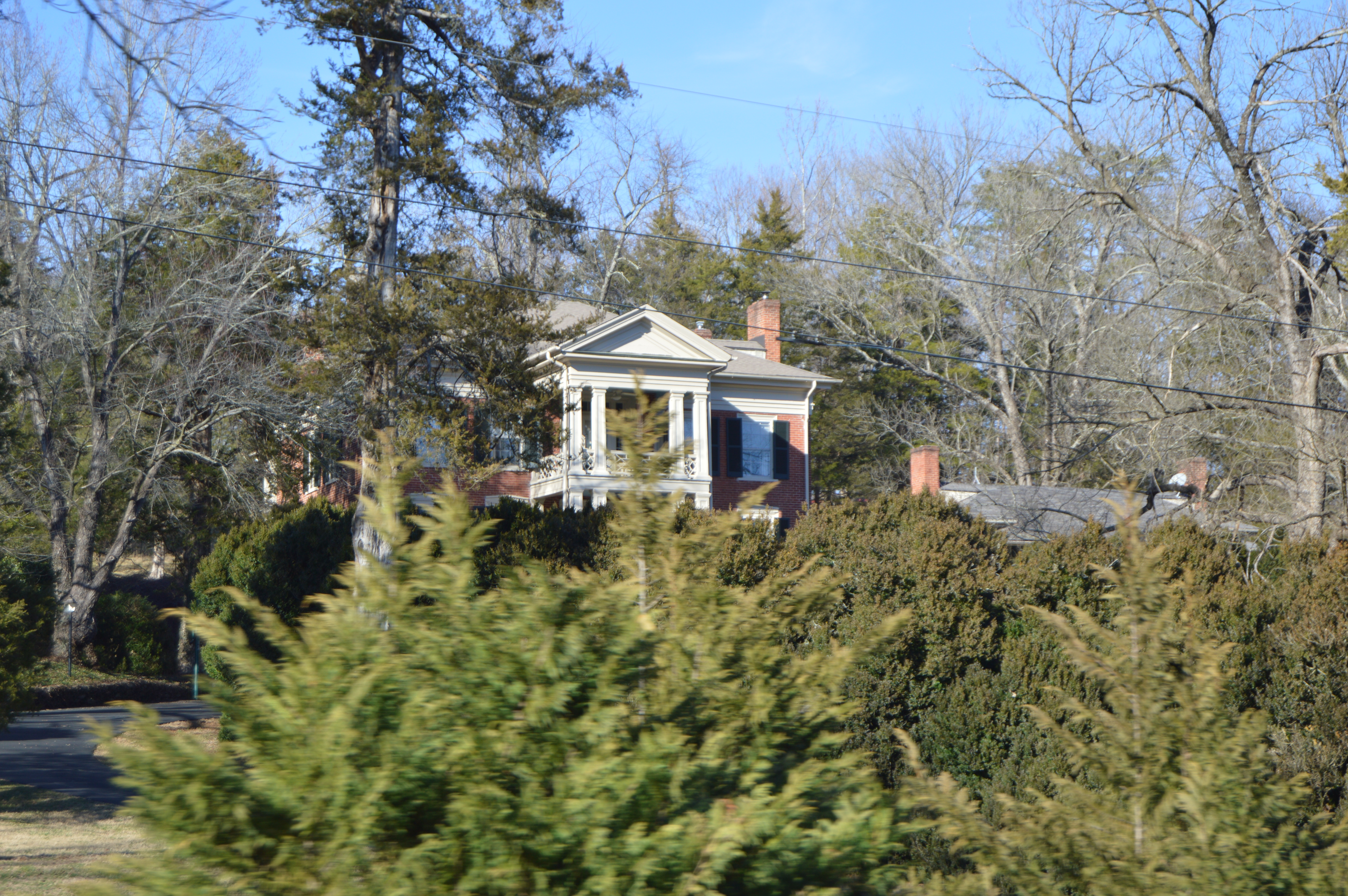 Roadside view of The Cedars, located on U.S. Route 250 west of Crozet in Albemarle County, Virginia, United States. It is listed on the National Register of Historic Places.